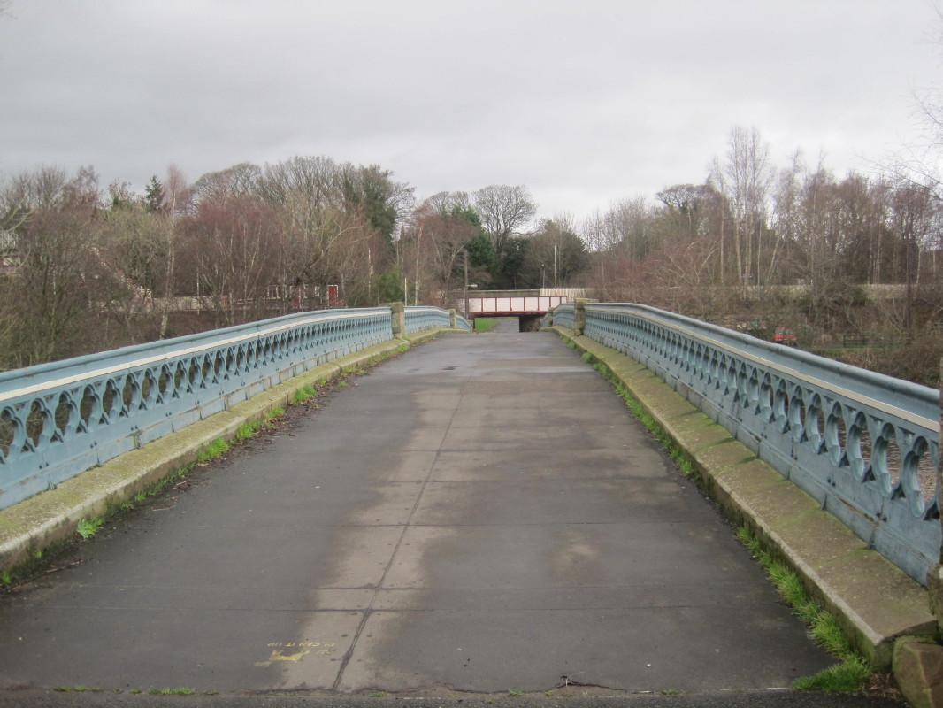 Photograph of Haltwhistle Tyne Bridge, sometimes known as "The Blue Bridge"